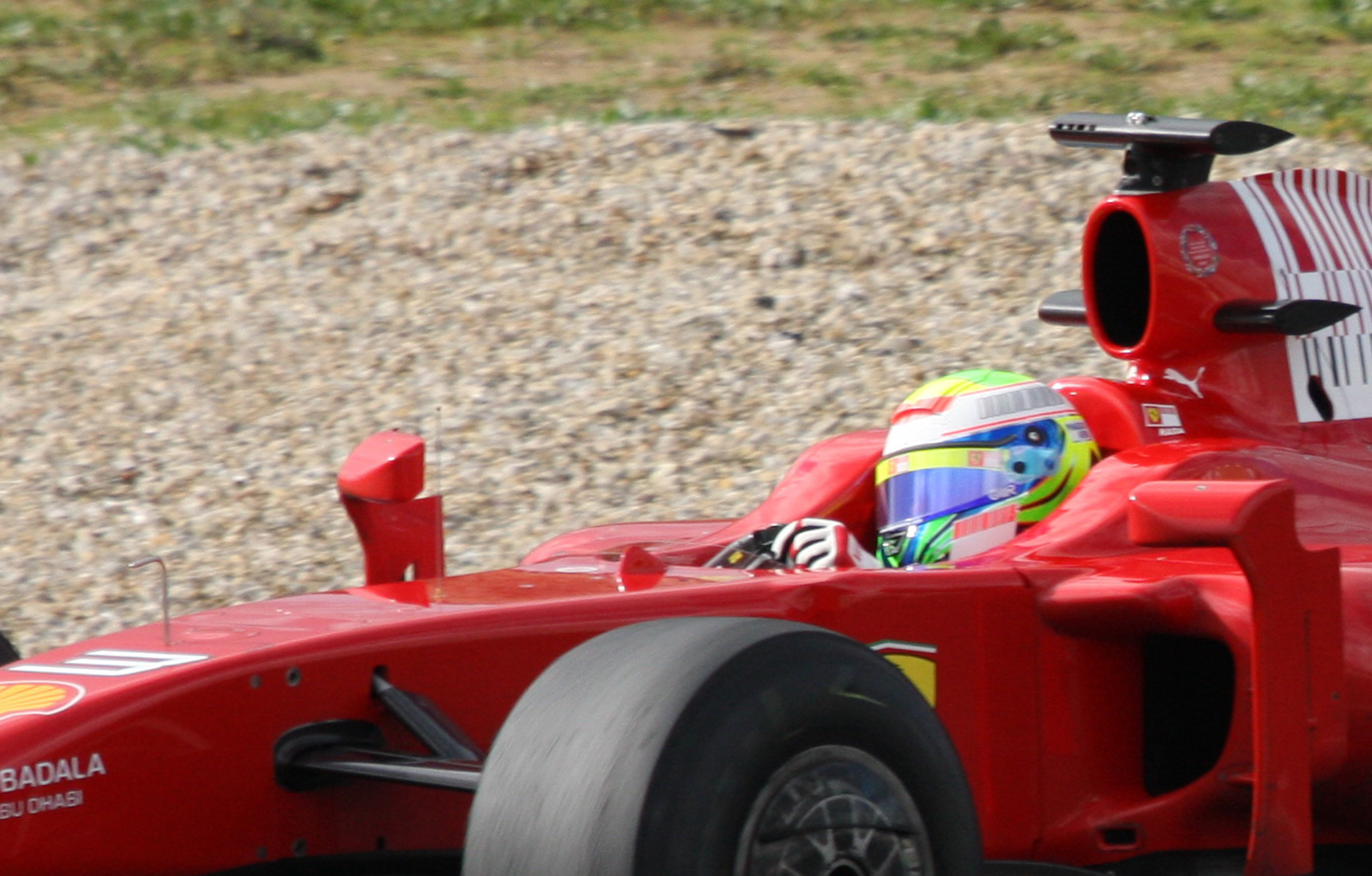 Felipe Massa in the Ferrari F60, F1 testing session, Jerez 03_Mar_2009